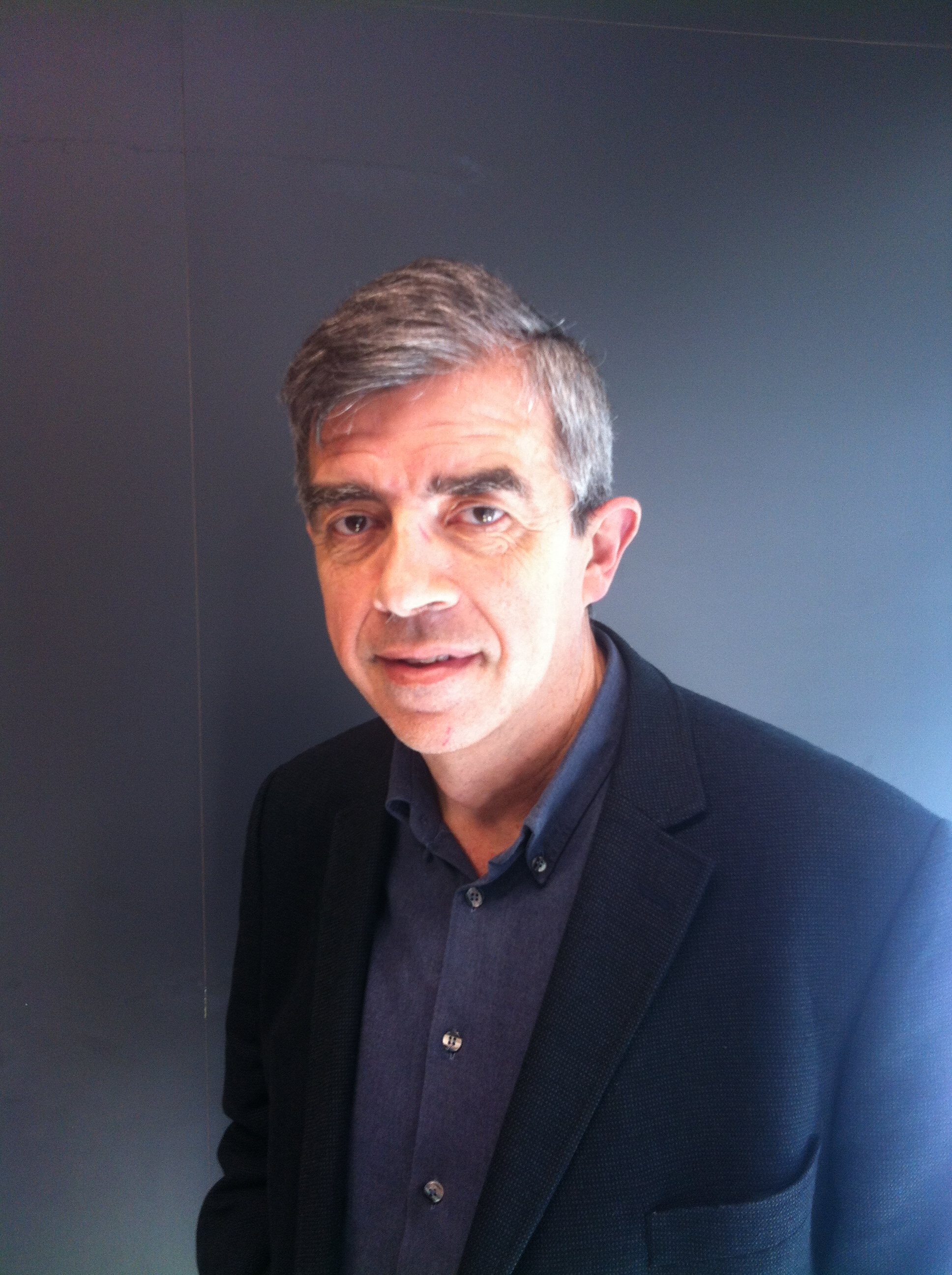 Esteve Riambau